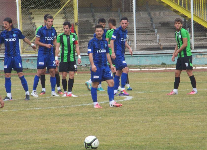 Turkish 3. Lig (3rd League) Ankara Demirspor 1-1 Anadolu Üsküdar 1908 SK match (2012-2013 season)